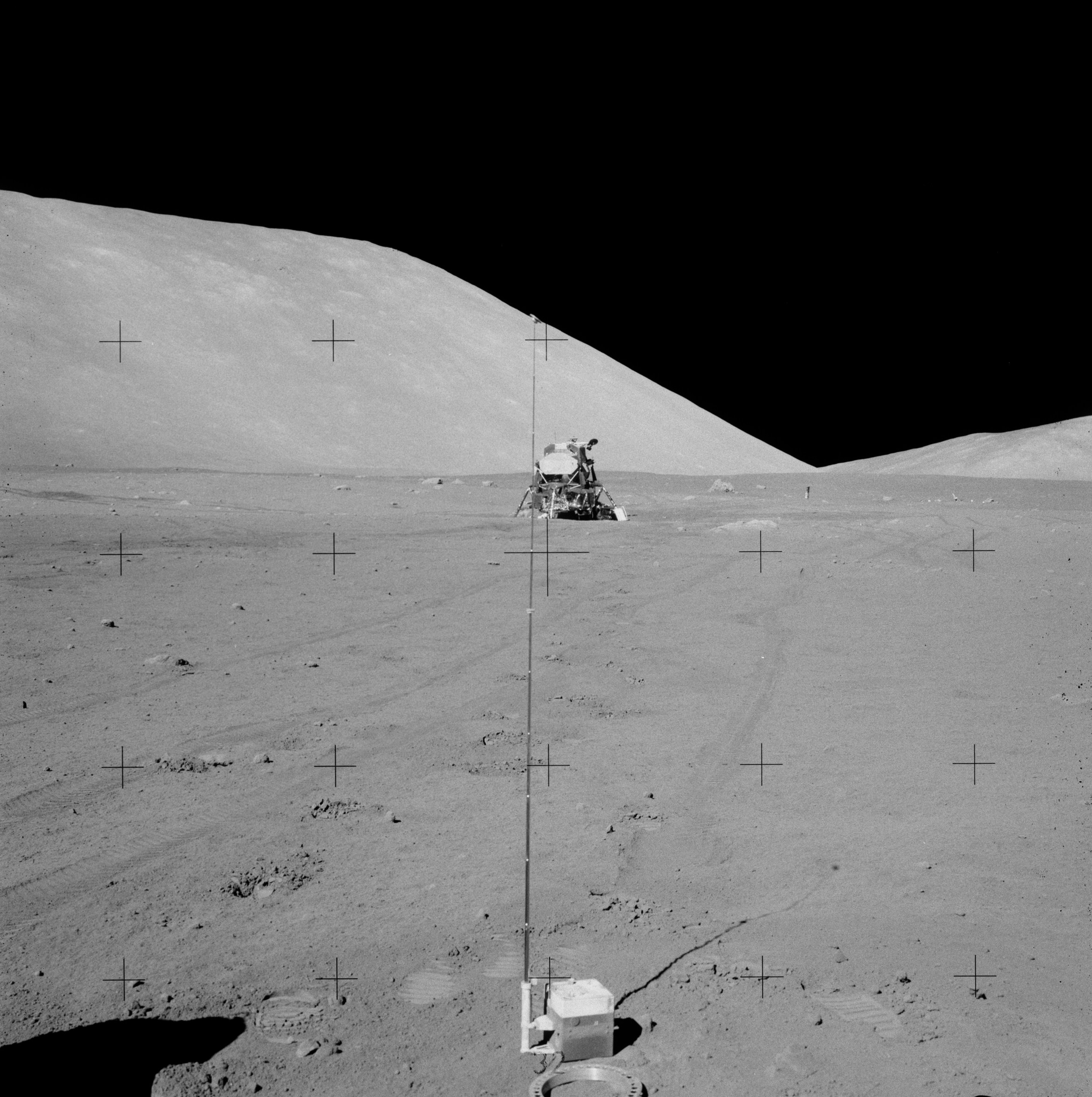 One of the charges for Apollo 17's Lunar Seismic Profiling Experiment.